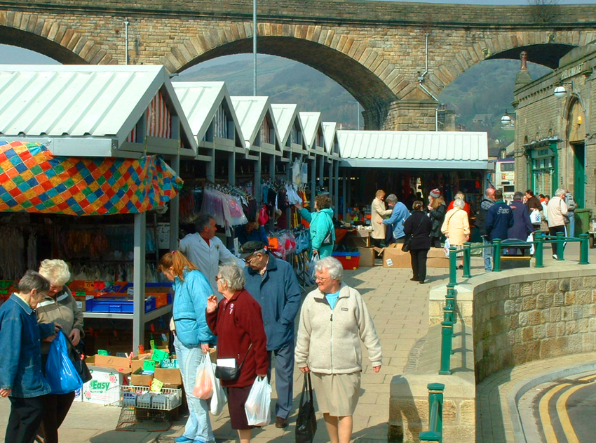 A view of a bustling Todmorden Market